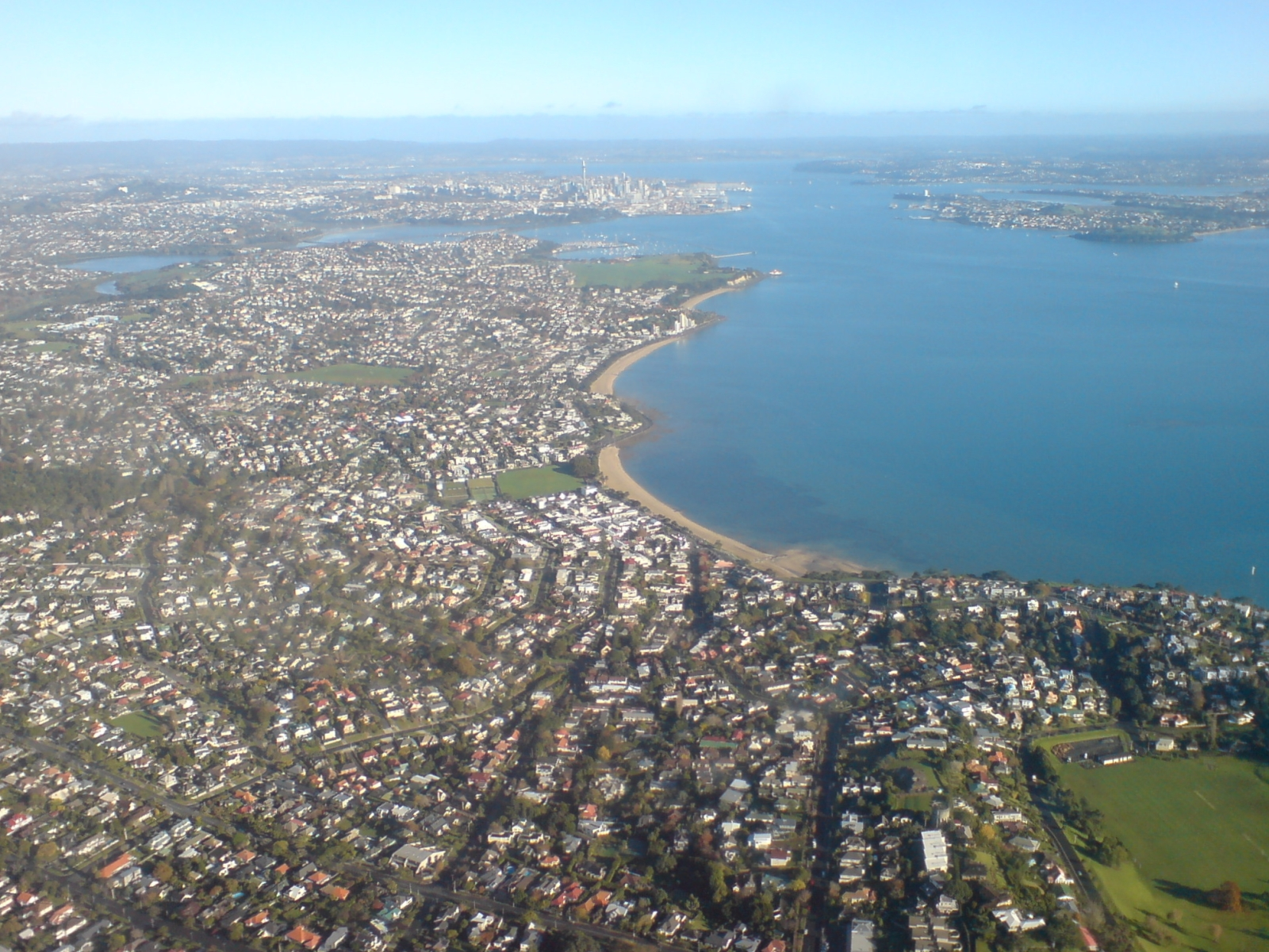 The 'Eastern Beaches' suburbs of Auckland City - Saint Heliers (closest beach), Kohimarama (middle distance beach) and Mission Bay (furthest beach).